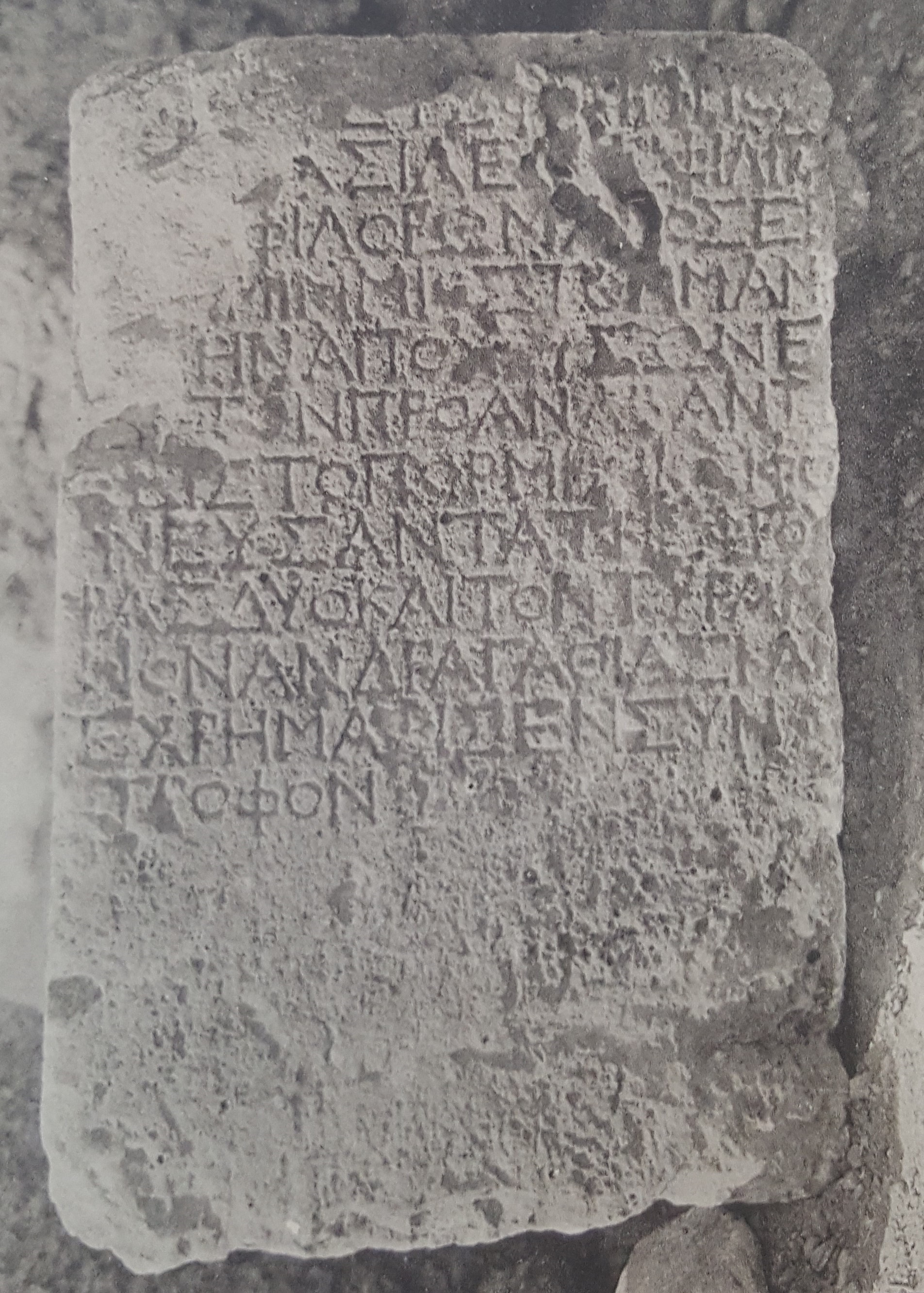 Inscription of Philip II Philoromaeus from Cilicia